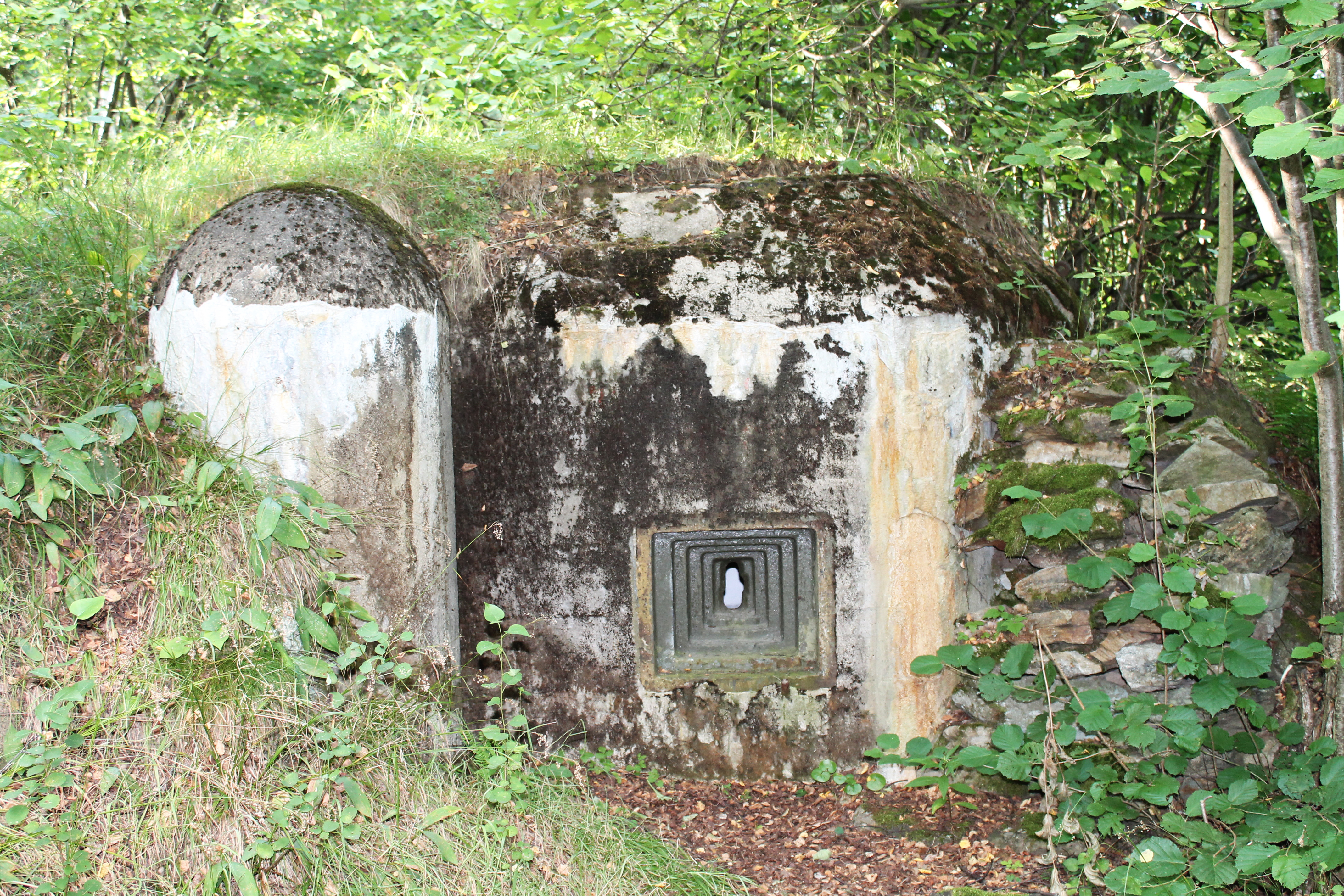 Light pillbox, Žlíbek, Kašperské Hory, Klatovy District, Czech Republic - Google Maps - Google Earth